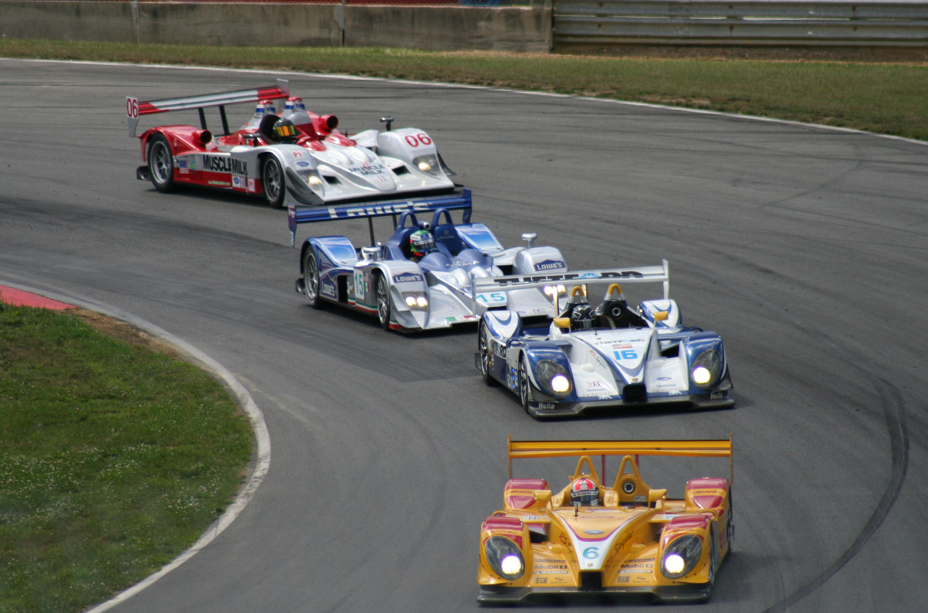 A Penske Porsche RS Spyder leading a Dyson Porsche RS Spyder leading a Fernandez Lola B06/43-Acura leading a Cytosport Lola B06/10-AER at Mid-Ohio